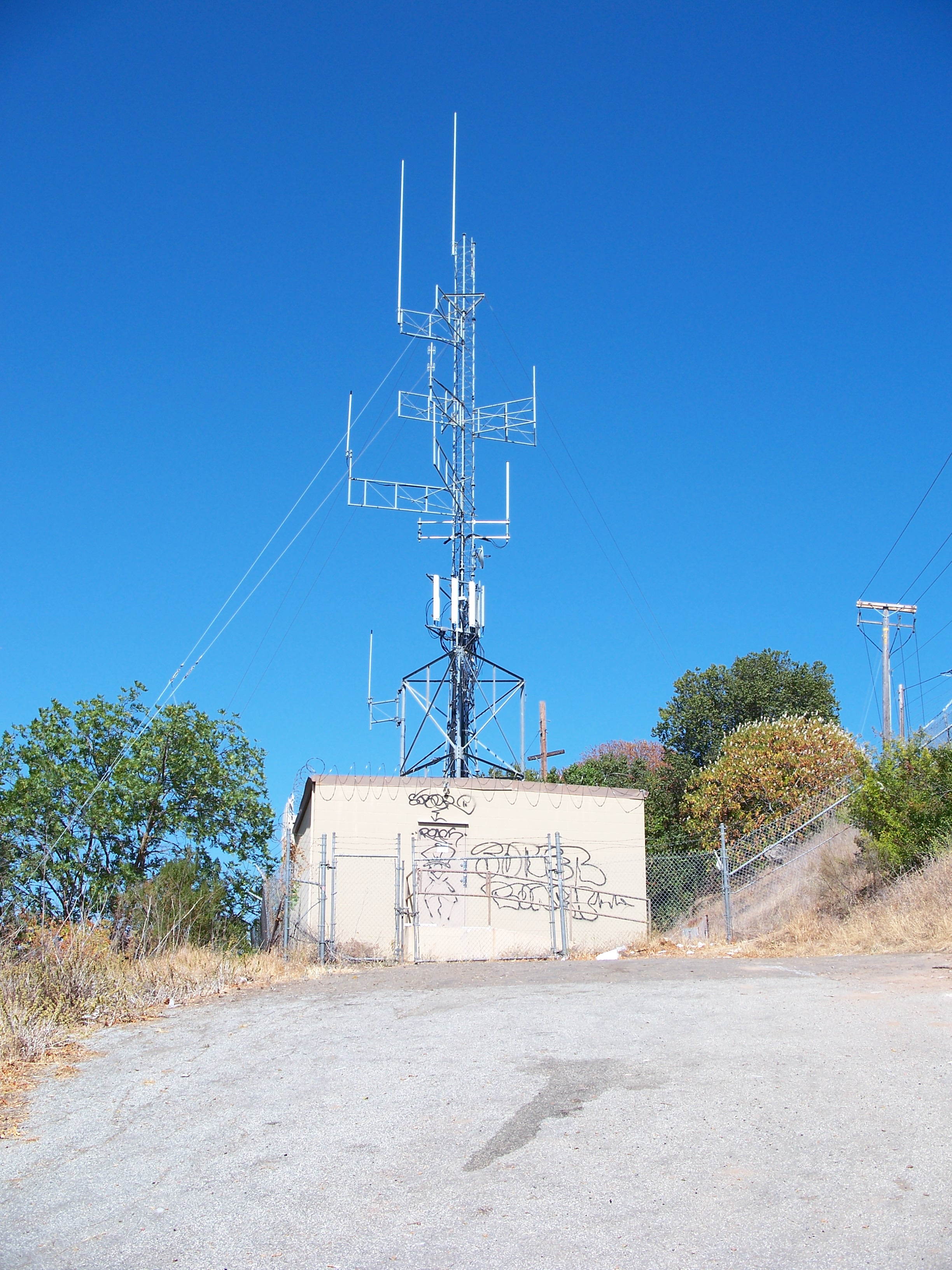 Base Station near Almaden Lake Drive. San Jose, California, USA.